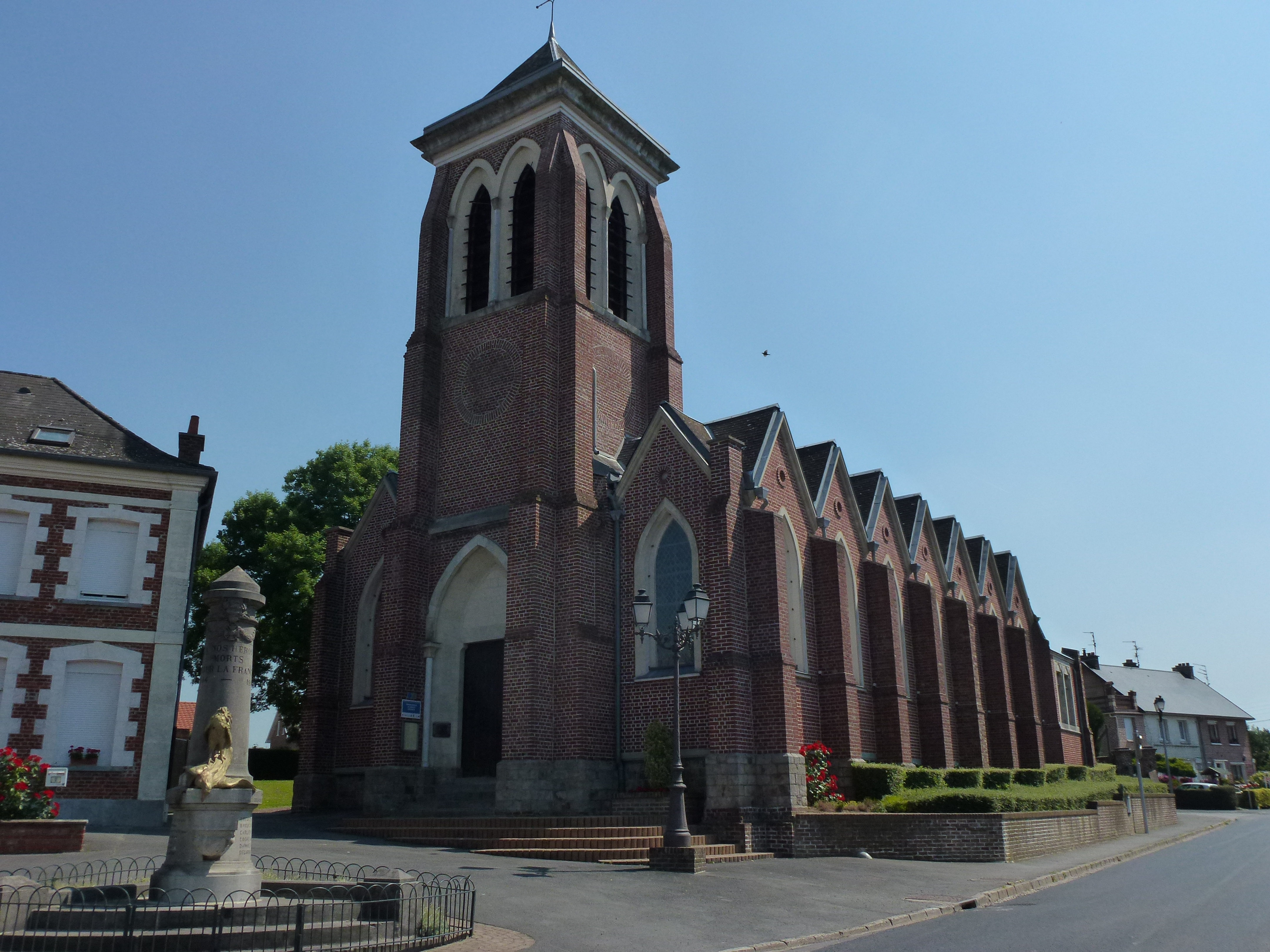 Estreux (Nord, Fr) église